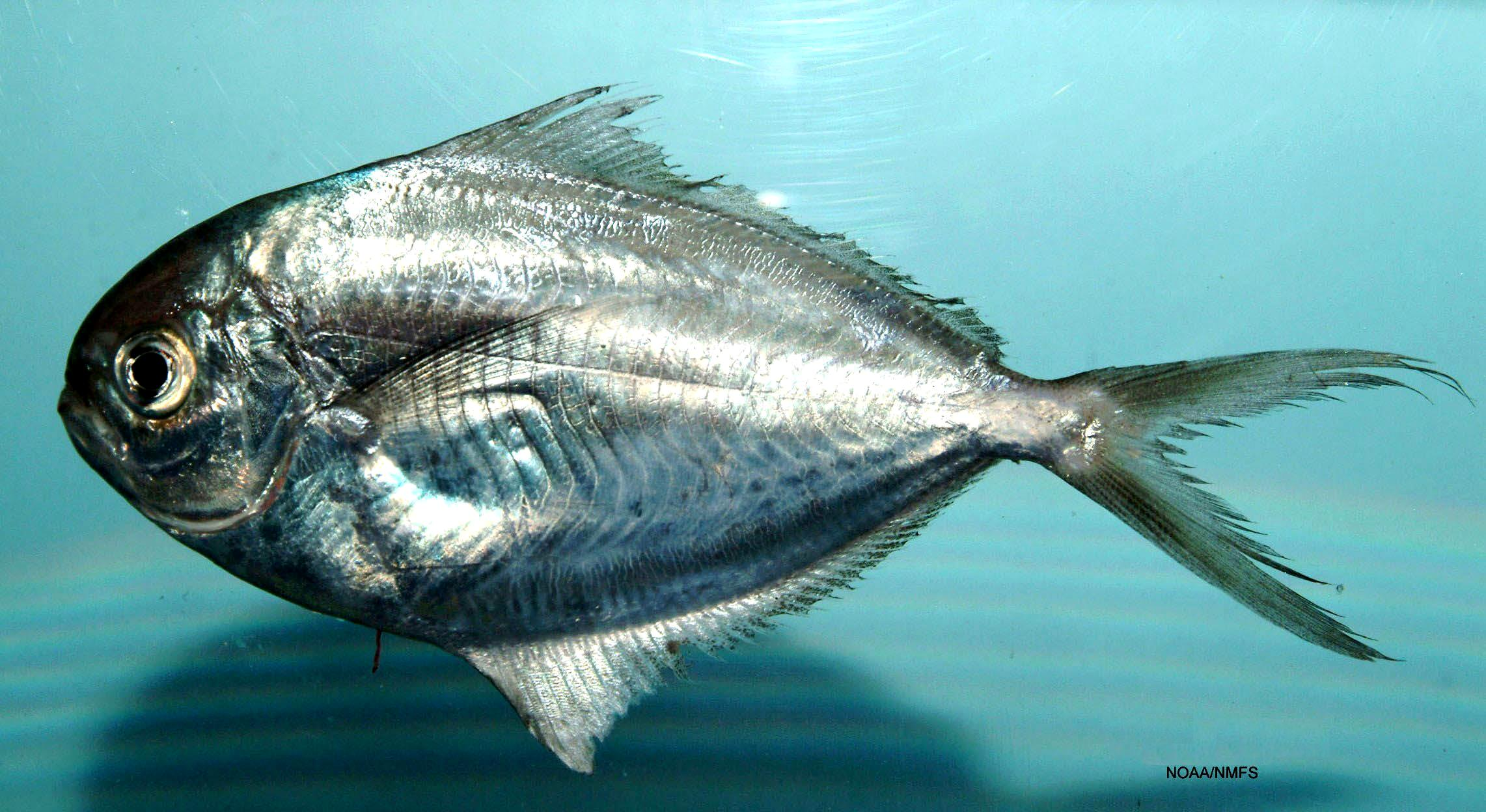 Peprilus burti from the Gulf of Mexico